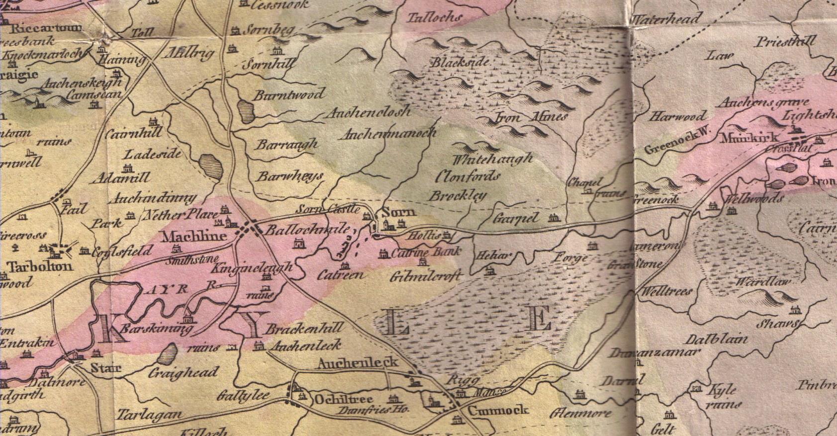 A map of the area around Cumnock & Auchinleck, Circa 1811. Ayrshire, Scotland